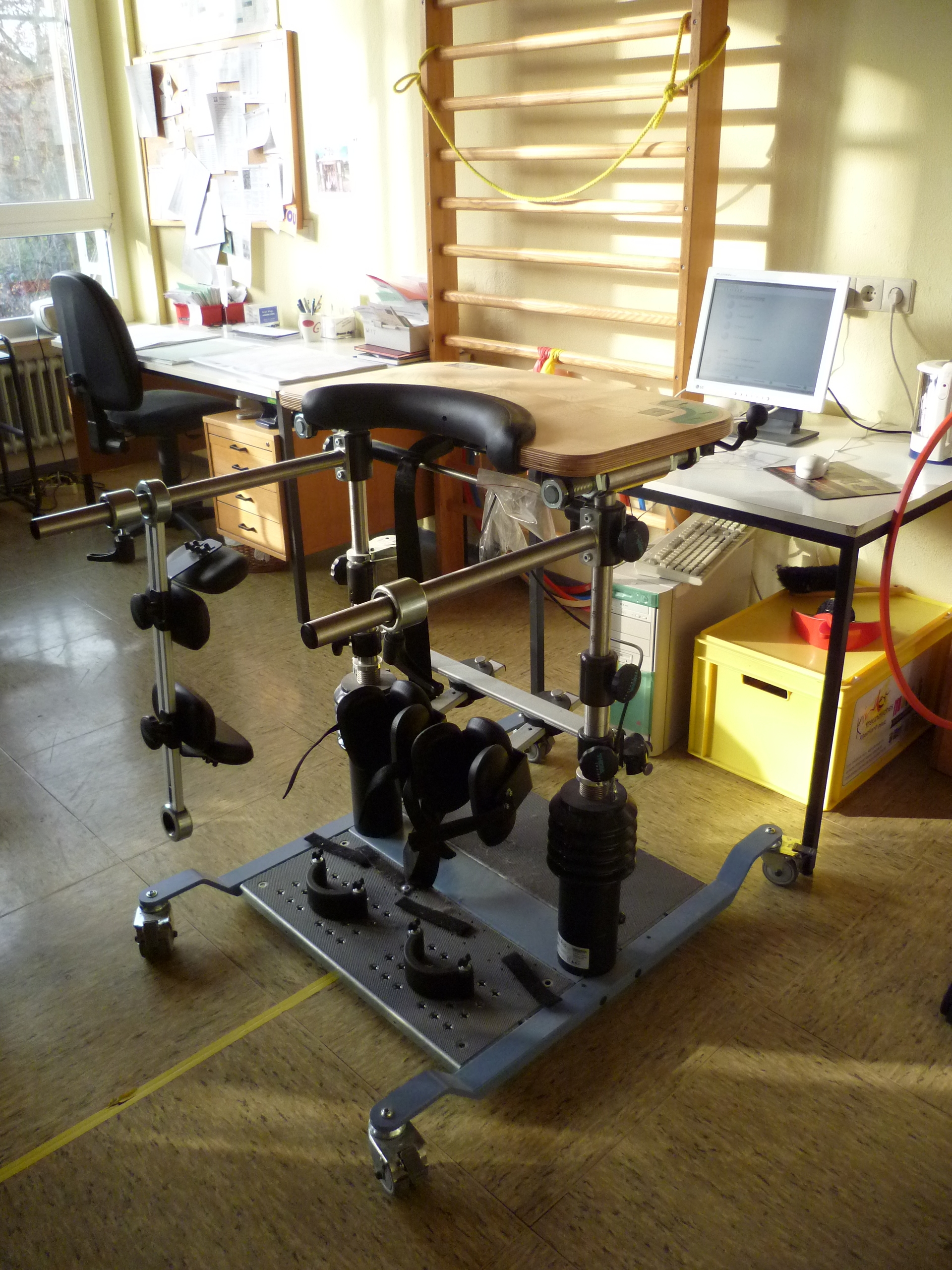 Balance board connected with a personal computer